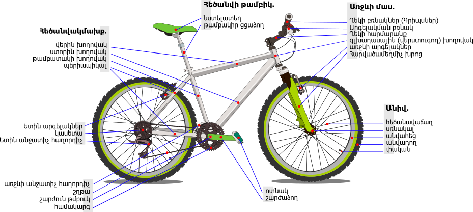 Bicycle diagram